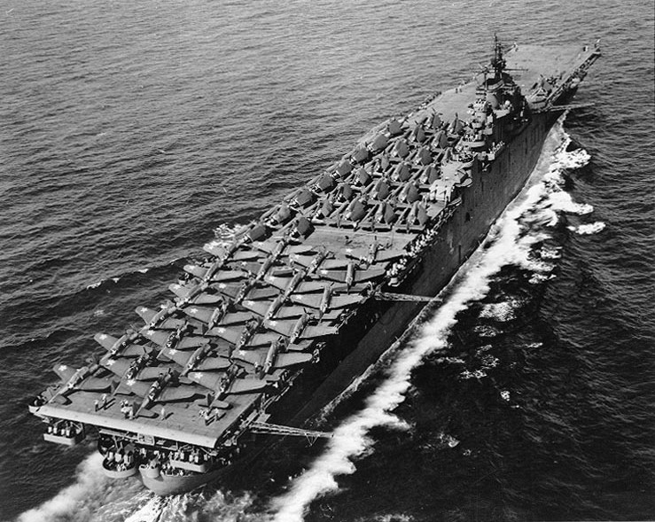 The U.S. Navy aircraft carrier USS Essex (CV-9) underway at in May 1943, in position 37 05'N, 74 15'E, as photographed from a blimp from U.S. Navy squadron ZP-14. Among the aircraft of Carrier Air Group 9 (CVG-9) parked on her flight deck are 24 Douglas SBD-5 Dauntless dive bombers (parked aft), about 11 Grumman F6F-3 Hellcat fighters (parked in after part of the midships area) and about 18 Grumman TBF-1 Avenger torpedo planes (parked amidships).